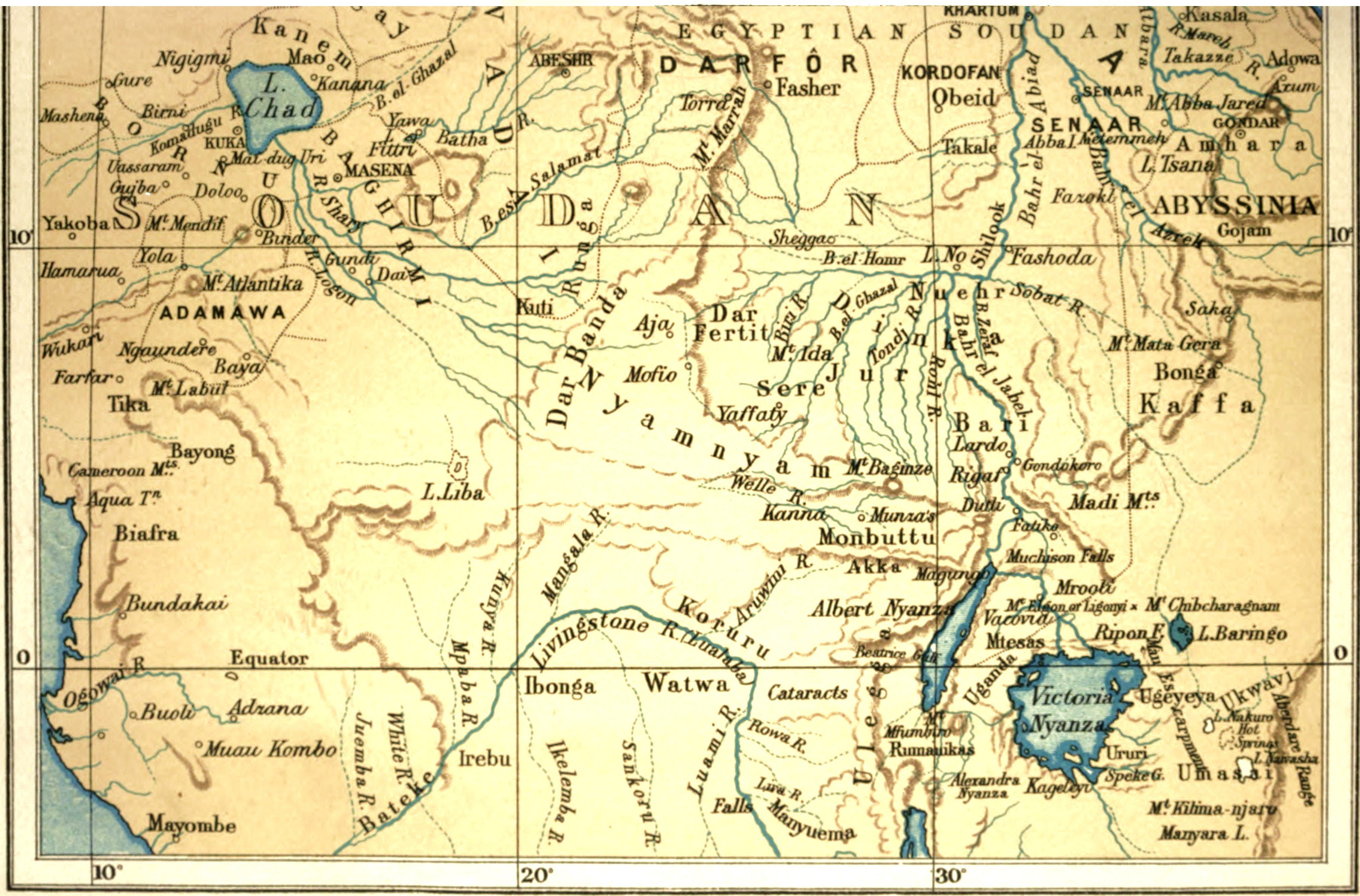 pg 37 of Africa, volume I.